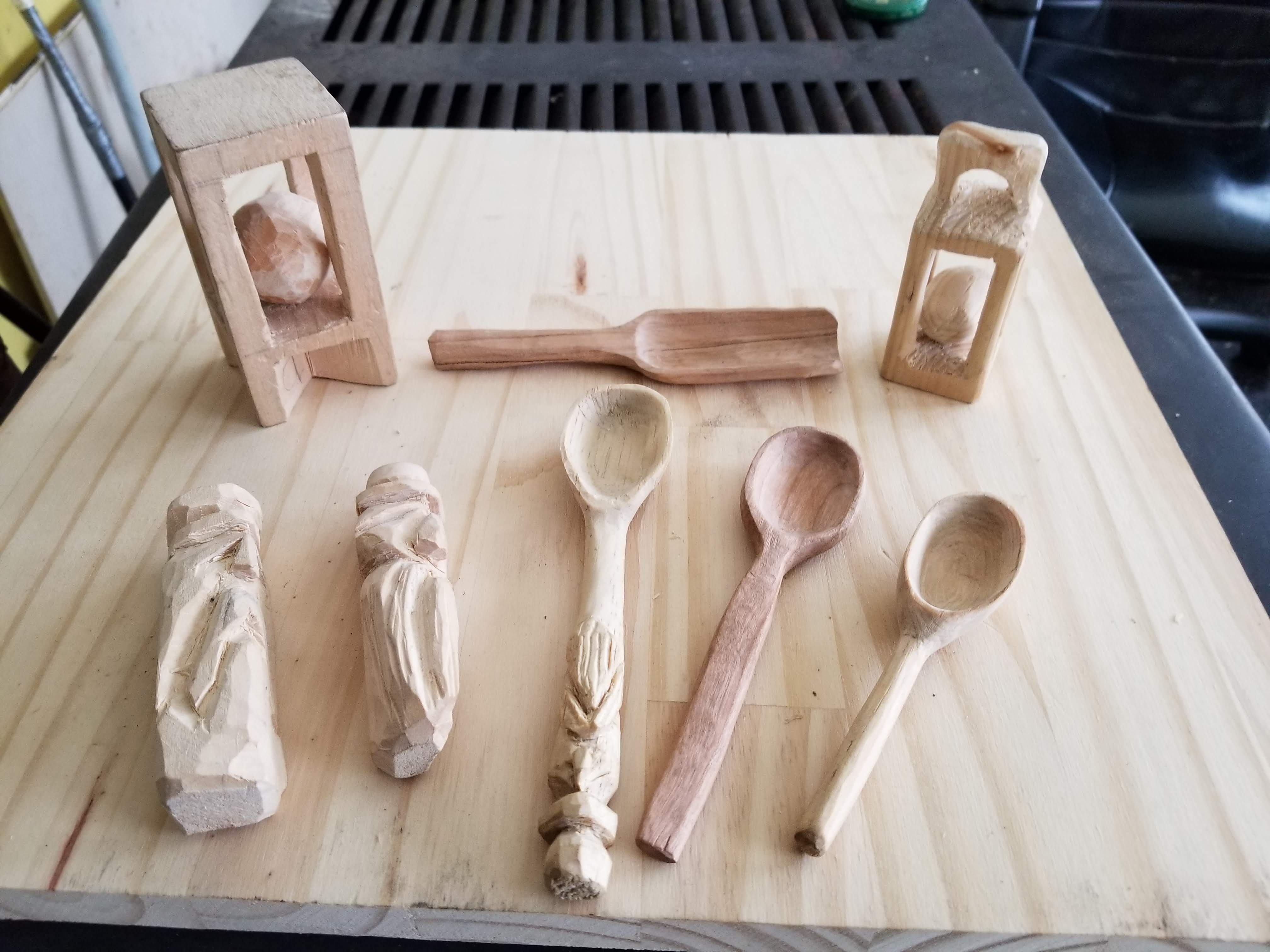 These are common examples of whittling.